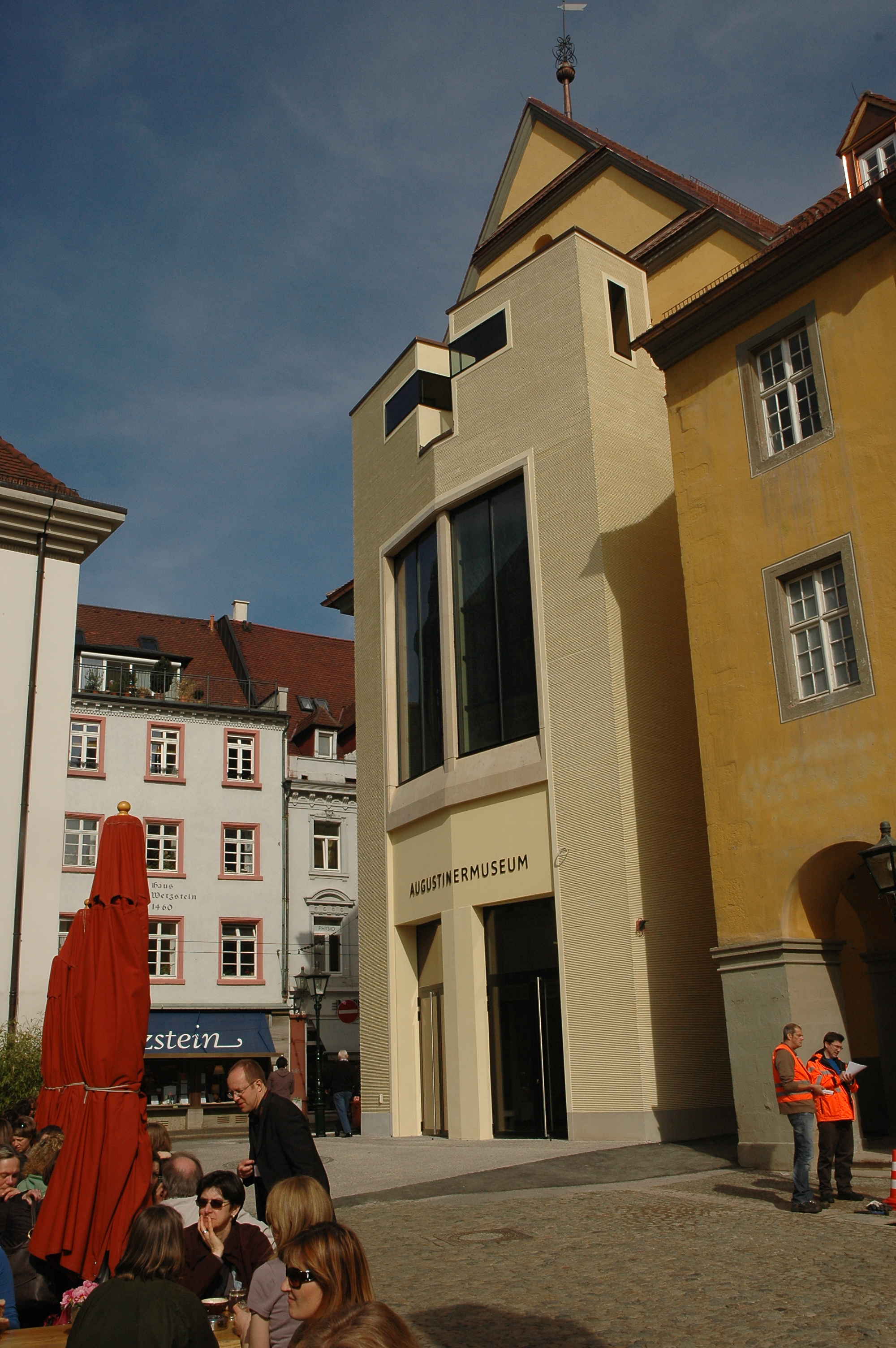 Entrance hall of the Augustiner Museum